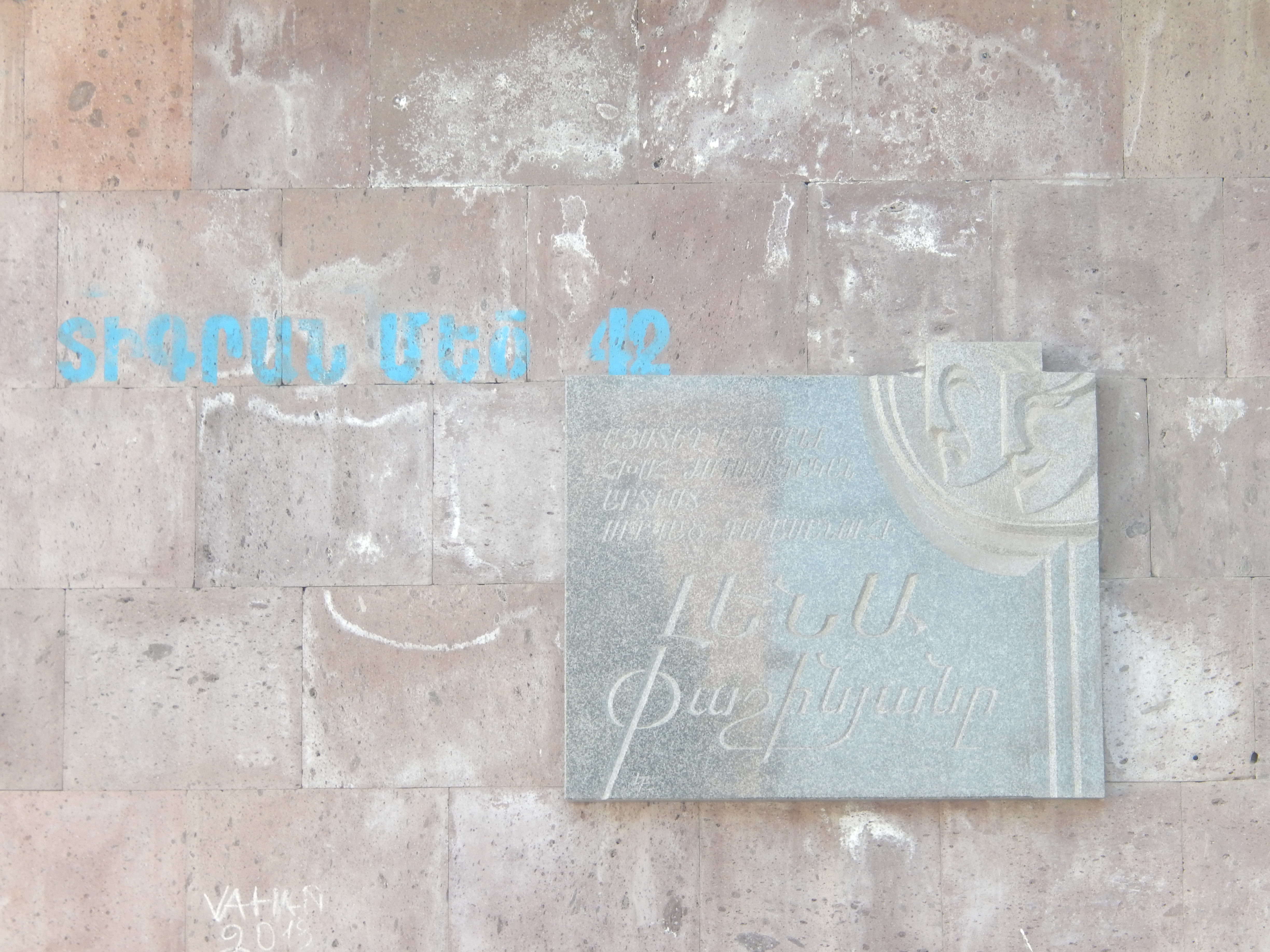 Լենա Փաշինյանի հուշատախտակը Վանաձորի Տիգրան Մեծի 42 հասցեում